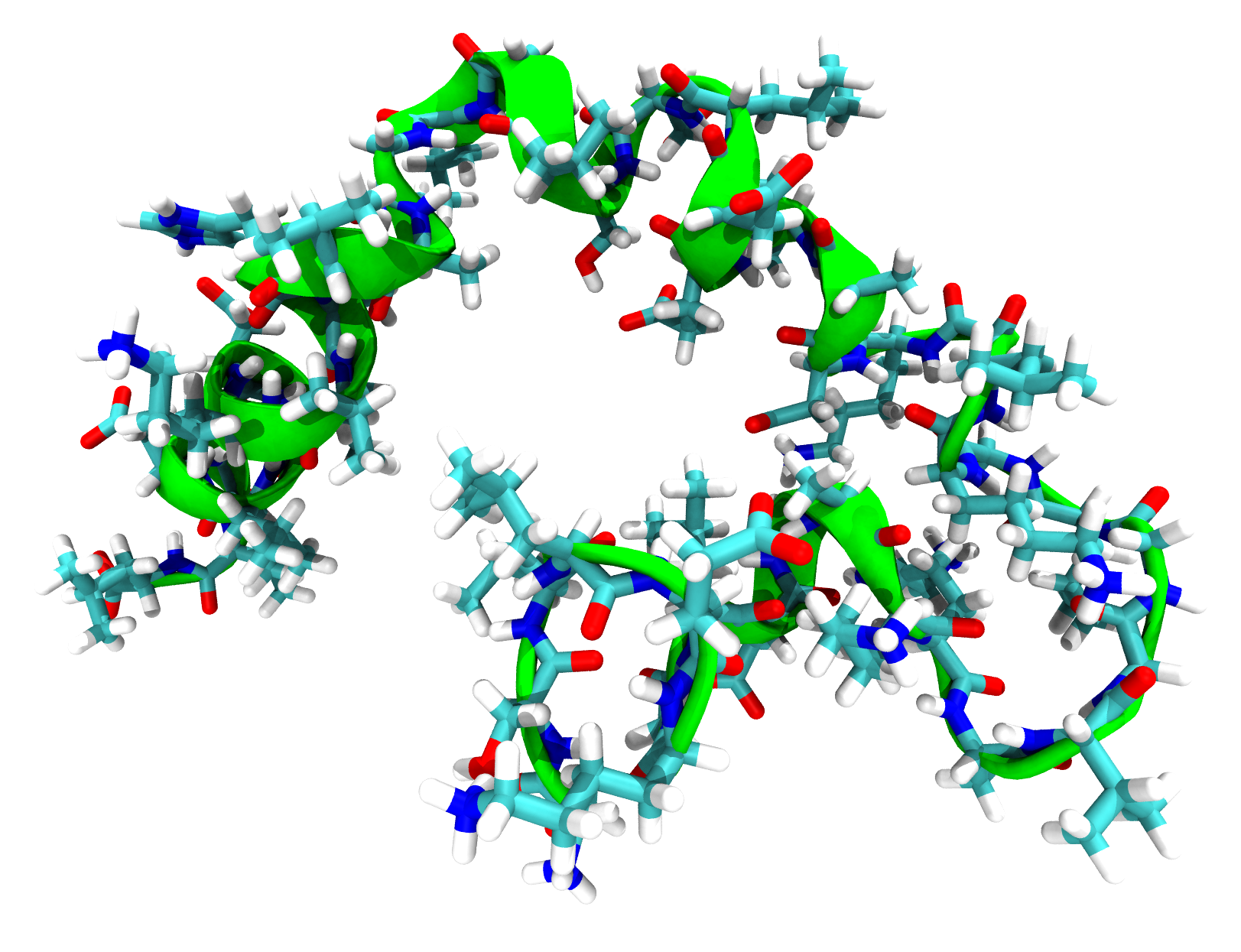 ribbon/sticks model of dermcidin-1L after PDB 2KSG. Ref.: Jung, H. , Yang, S. , Kim, J. Solution structure and membrane interactions of dermcidin-1L, a human antibiotic peptide To be Published